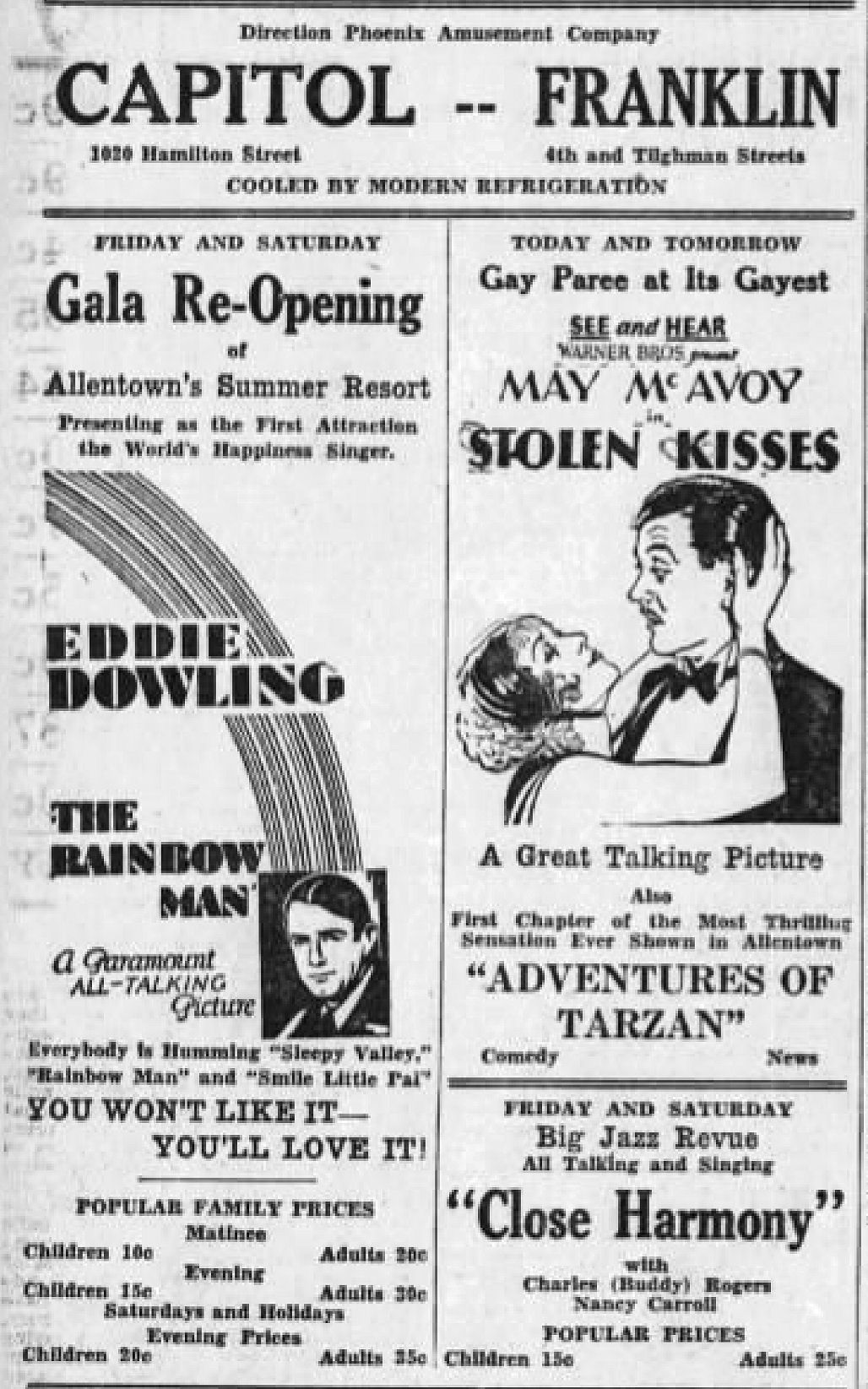 Capitol - Franklin Theater advertisement for the films The Rainbow Man (1929) and Stolen Kisses (1929) - 24 Jul MC - Allentown PA